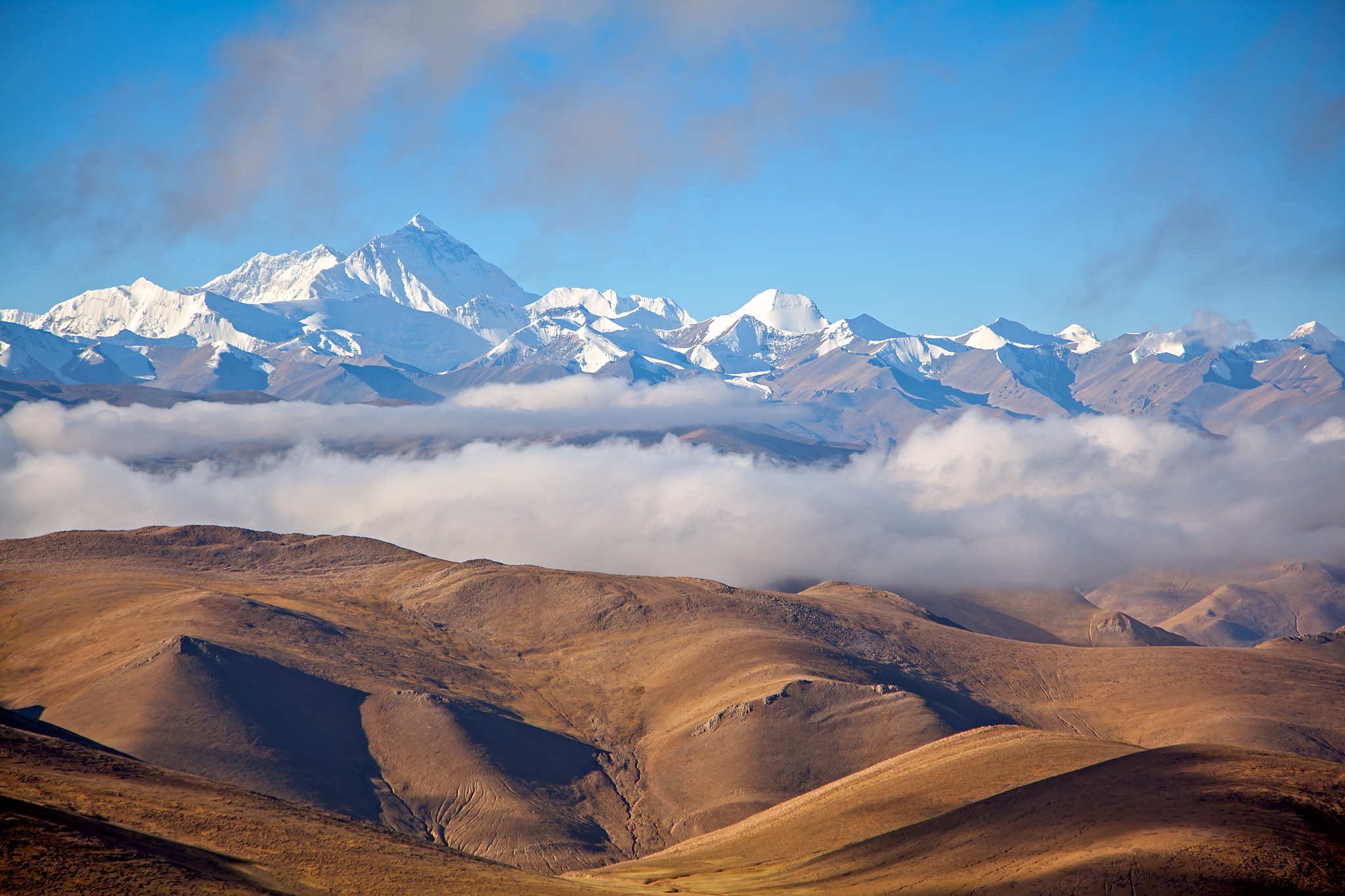 500px provided description: 拷贝 [#yellow ,#red ,#nature ,#car ,#blue sky ,#grassland ,#prairie ,#good bye ,#China ,#Tibet ,#Trunk ,#Running ,#Plateau ,#Tableland]